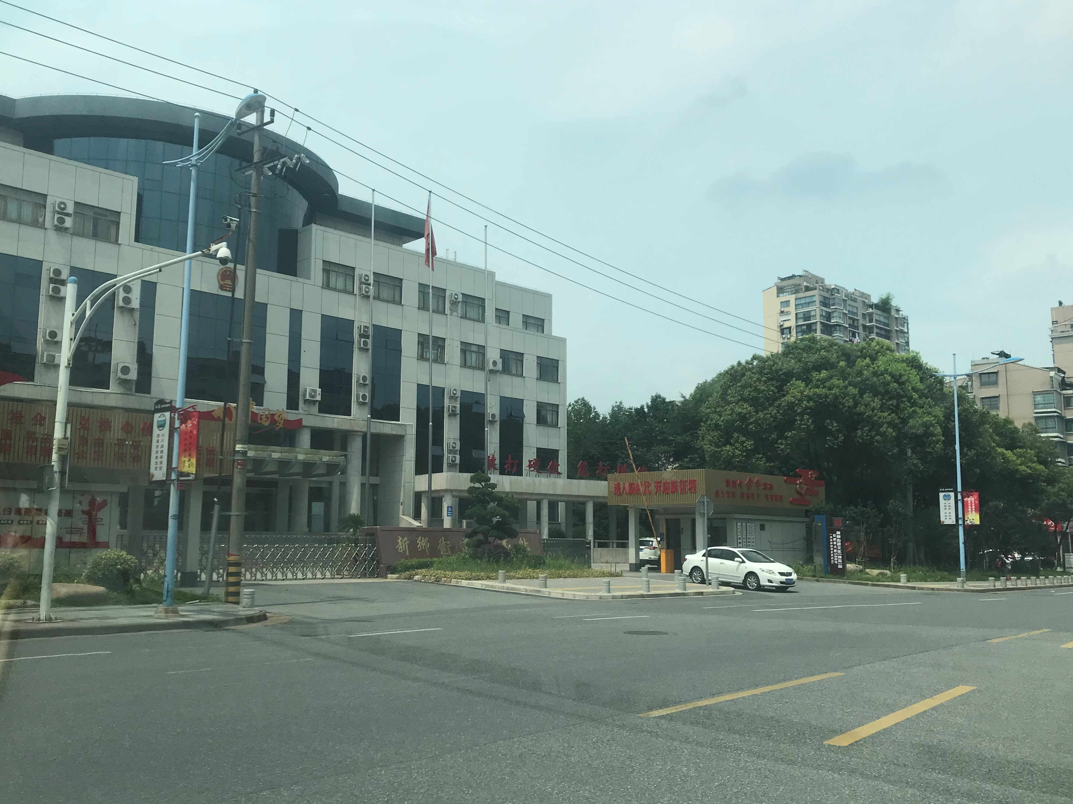 201906 Government of Xinshi Subdistrict